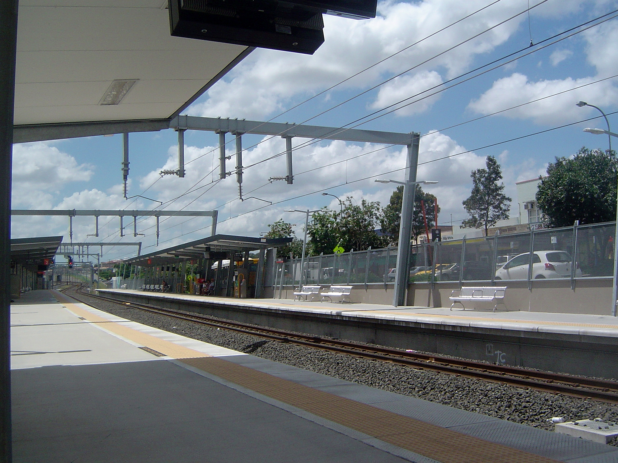 Photo of Darra railway station platform 1 and 2 looking east.